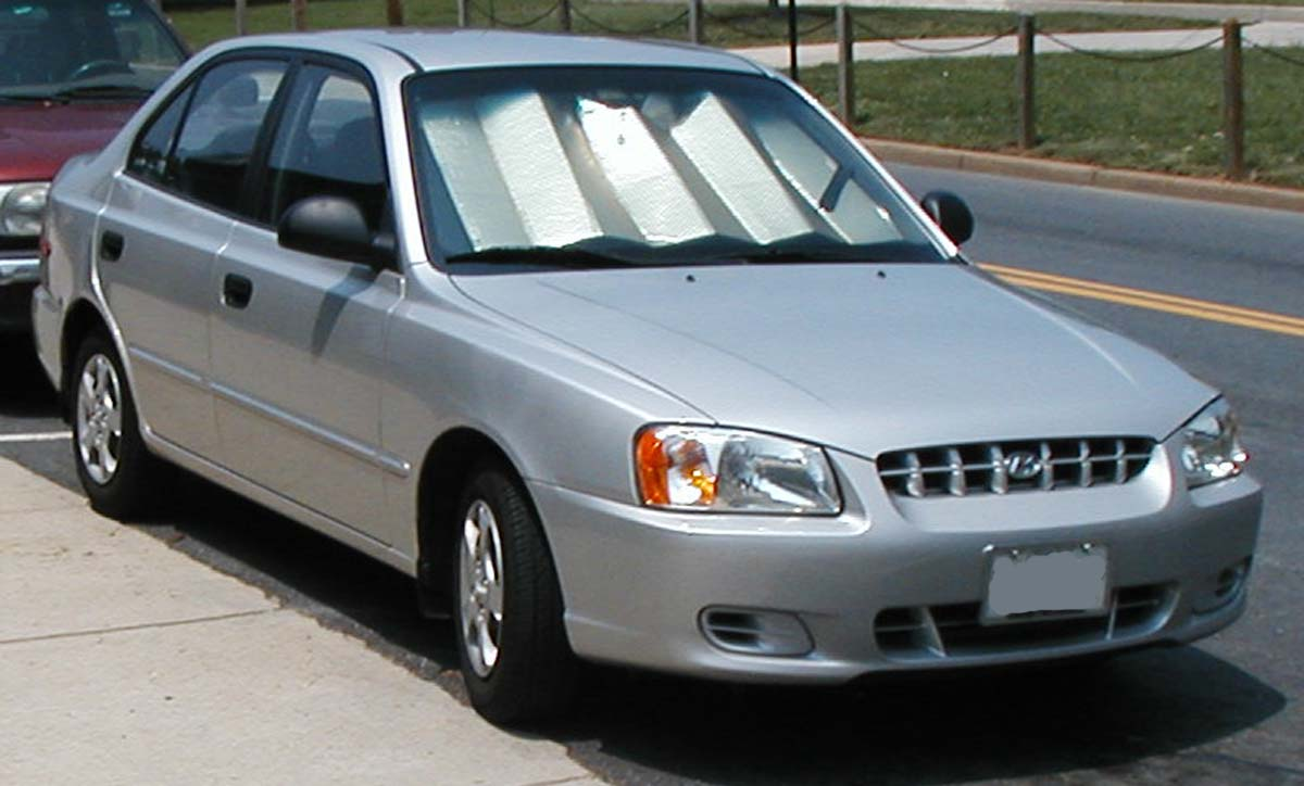 2000-2002 Hyundai Accent sedan photographed in College Park, Maryland, USA.